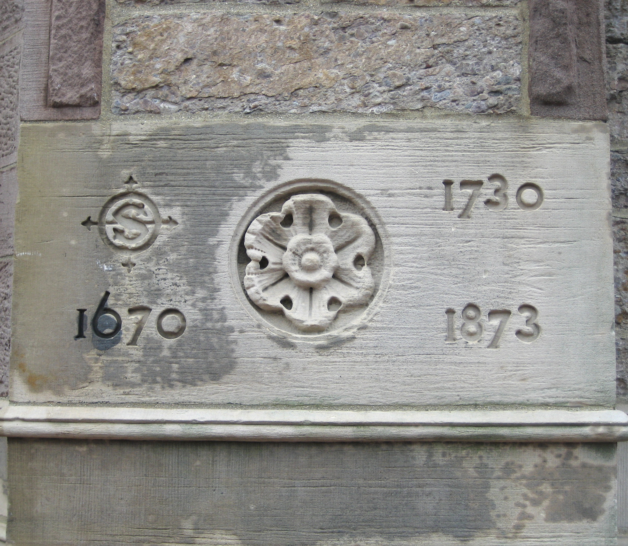 Cornerstone of Old South Church in Boston. October 2006.